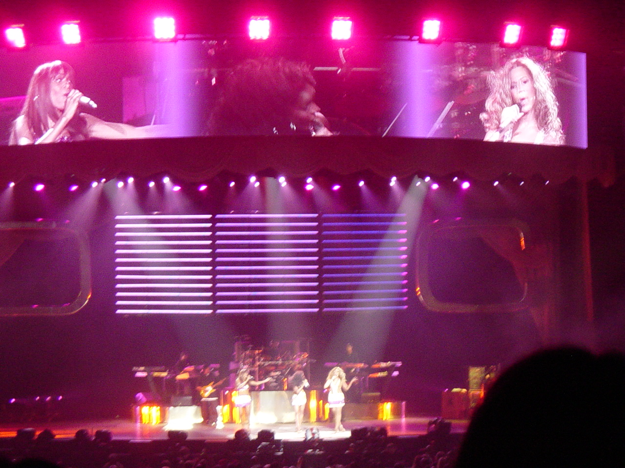 Destiny's Child singing the song "Girl" in Las Vegas.